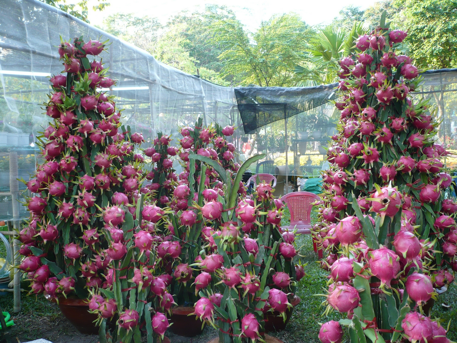 Hylocereus undatus (Haw.) Britton et Rose, 1918